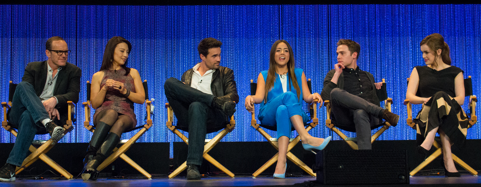 Cast of the TV show Agents of S.H.I.E.L.D. at PaleyFest 2014. From left: Clark Gregg, Ming-Na Wen, Brett Dalton, Chloe Bennet, Iain De Caestecker and Elizabeth Henstridge